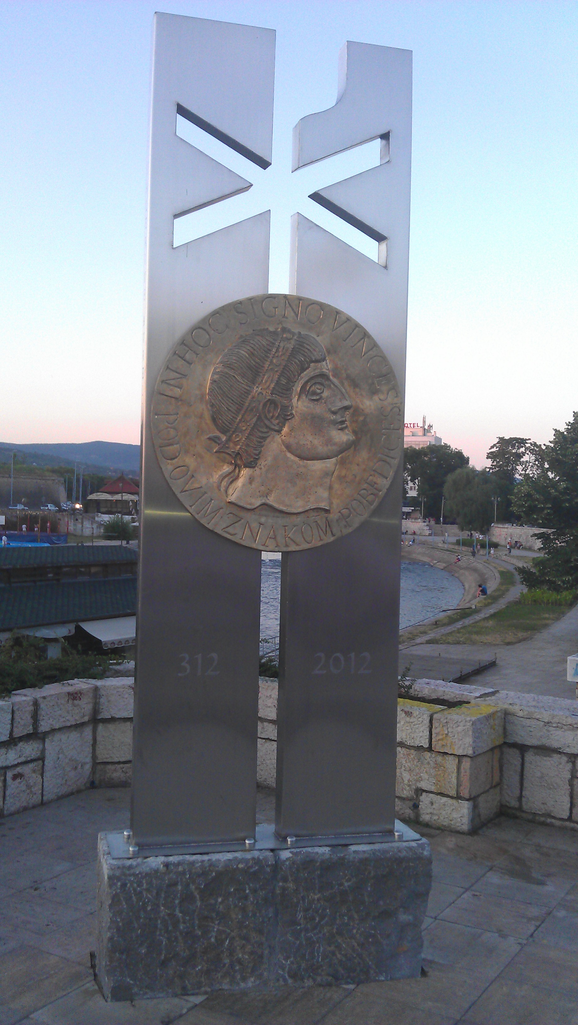 Monument of Constantine the Great in center of Nis, Serbia